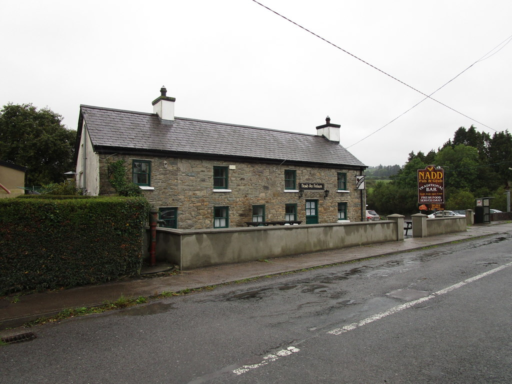 The Eagle's Nest, Nad